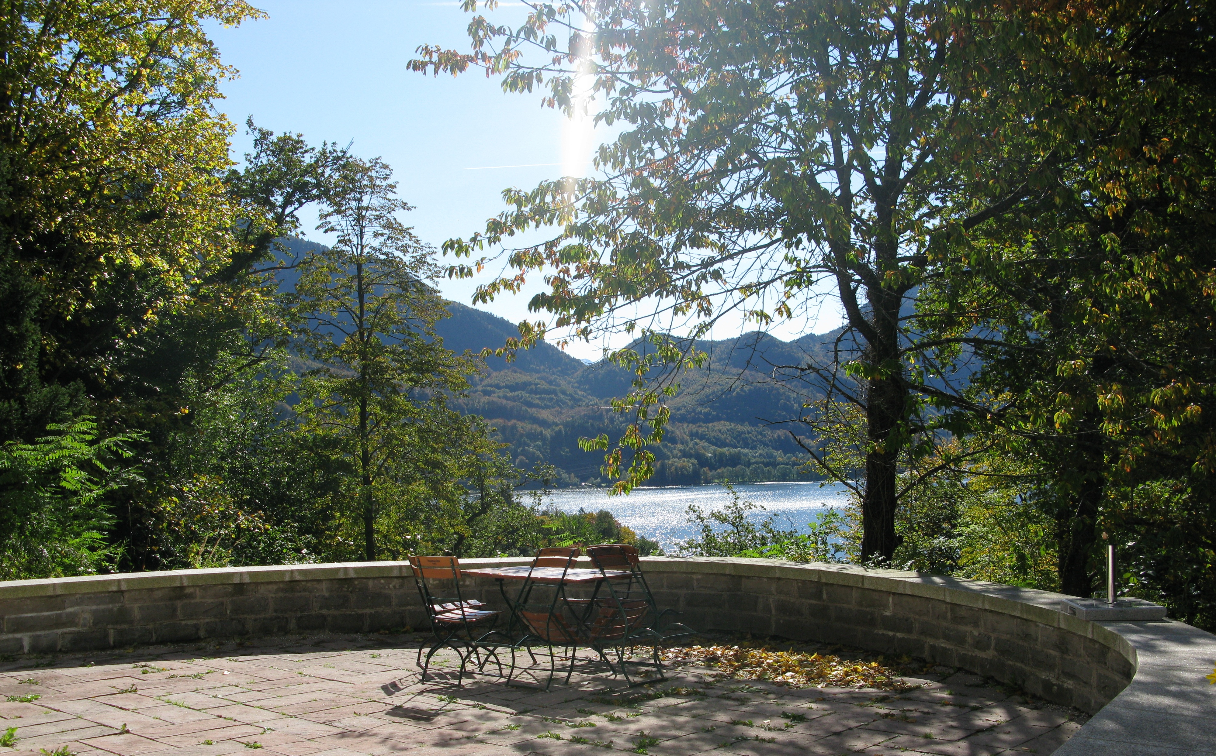 The rose-terrace of the Georg-von-Vollmar-Akademie with a view on the Kochelsee with the Kesselberg in the background - in front of Schloss Aspenstein in Kochel am See, Upper Bavaria, Germany.